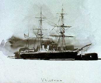 HMS Valorous cropped from Sketches of HMS Discovery, Valerous (sic) and a sailing vessel